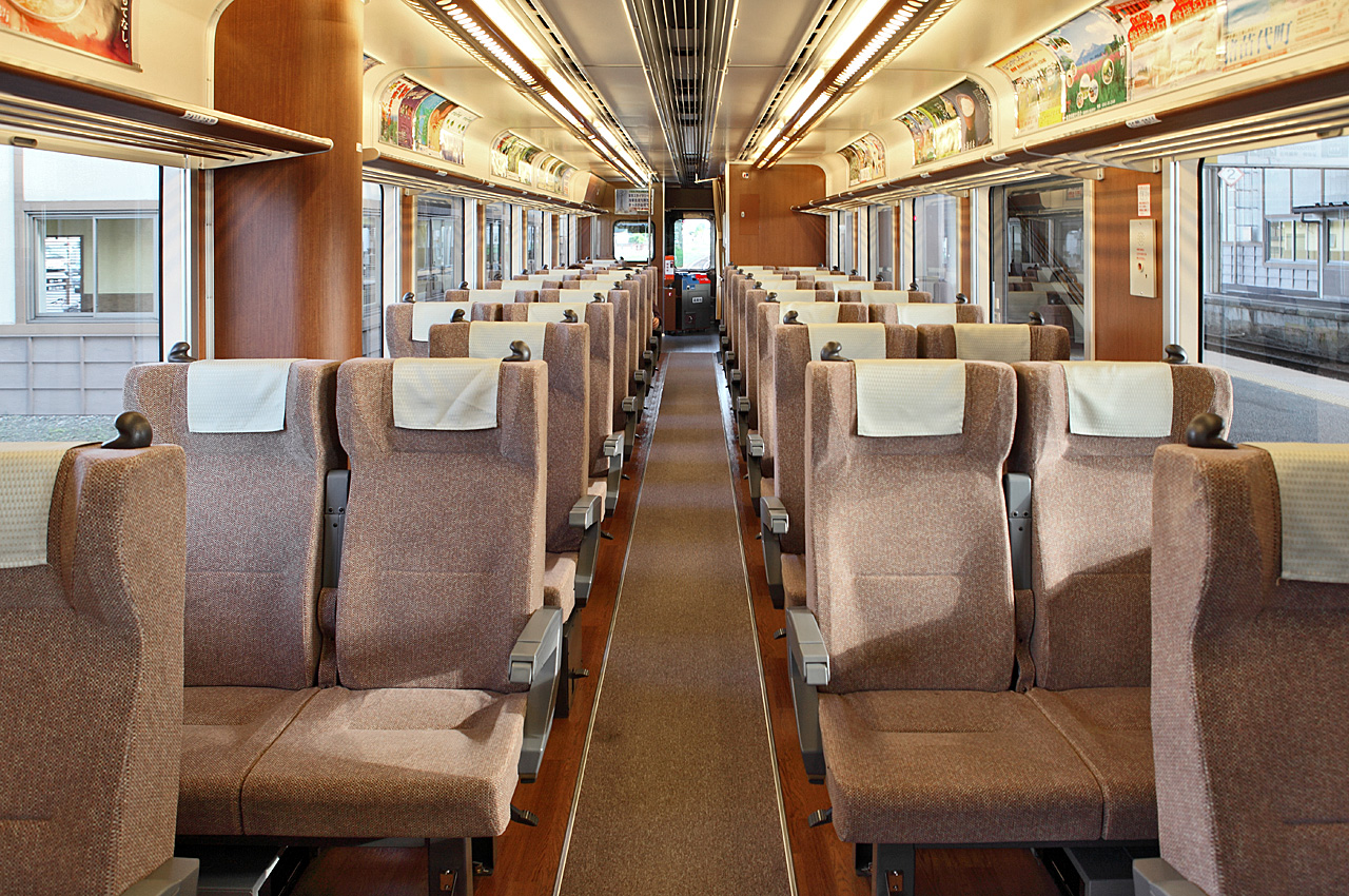 Interior of Aizu Railway Type AT-750